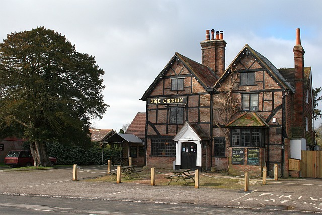 The Crown, Capel The Crown , at 98 The Street in Capel, dates back to the C17.